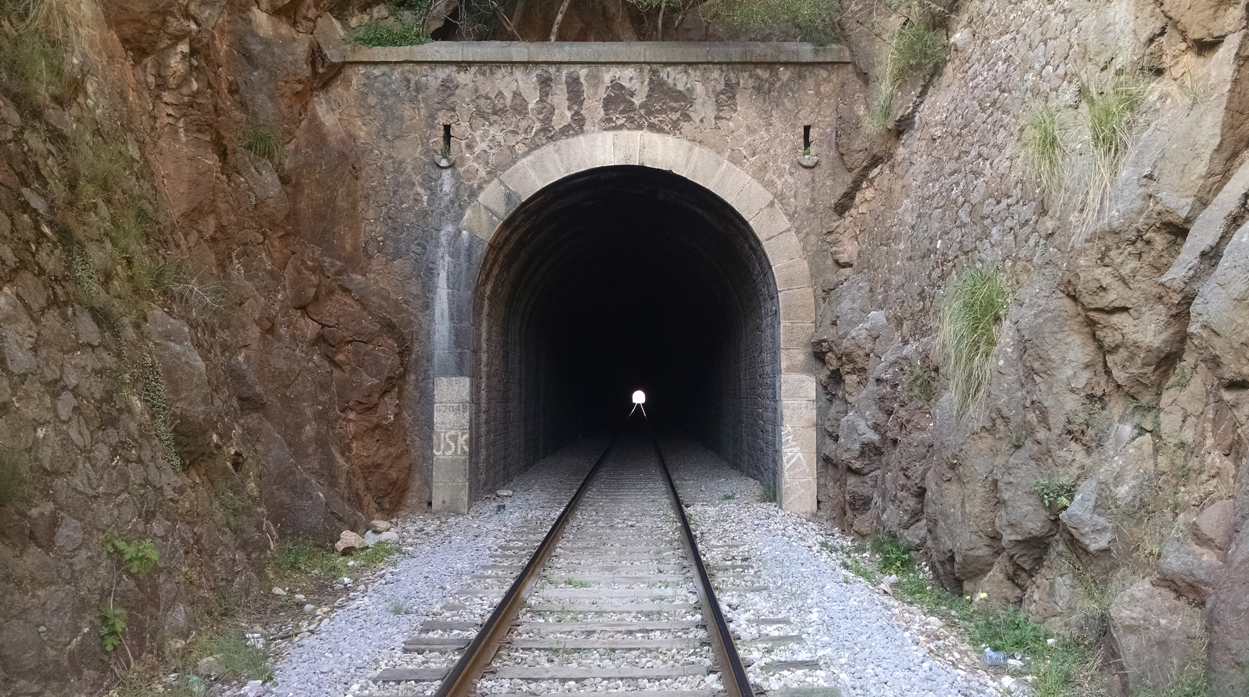 Tunnel in a mountainous area in the town of Ammal, Boumerdes province in Algeria